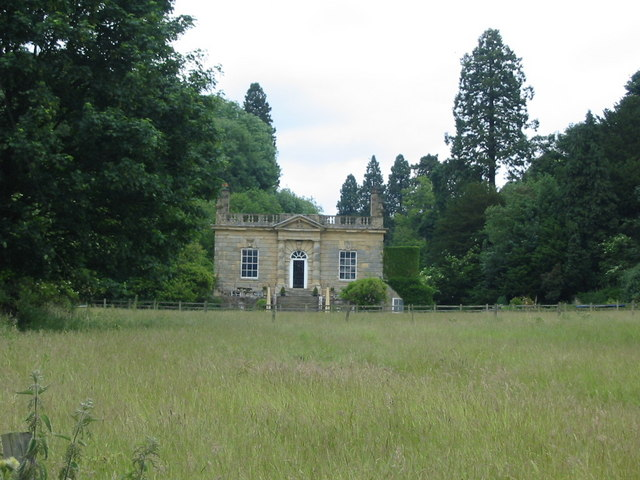 Ebberston Hall. A summer pavilion rather than a house. It was built by Colen Campbell in 1718 for William Thompson. The house is illustrated in Vitruvius Britannicus, vol.3, c.1725.